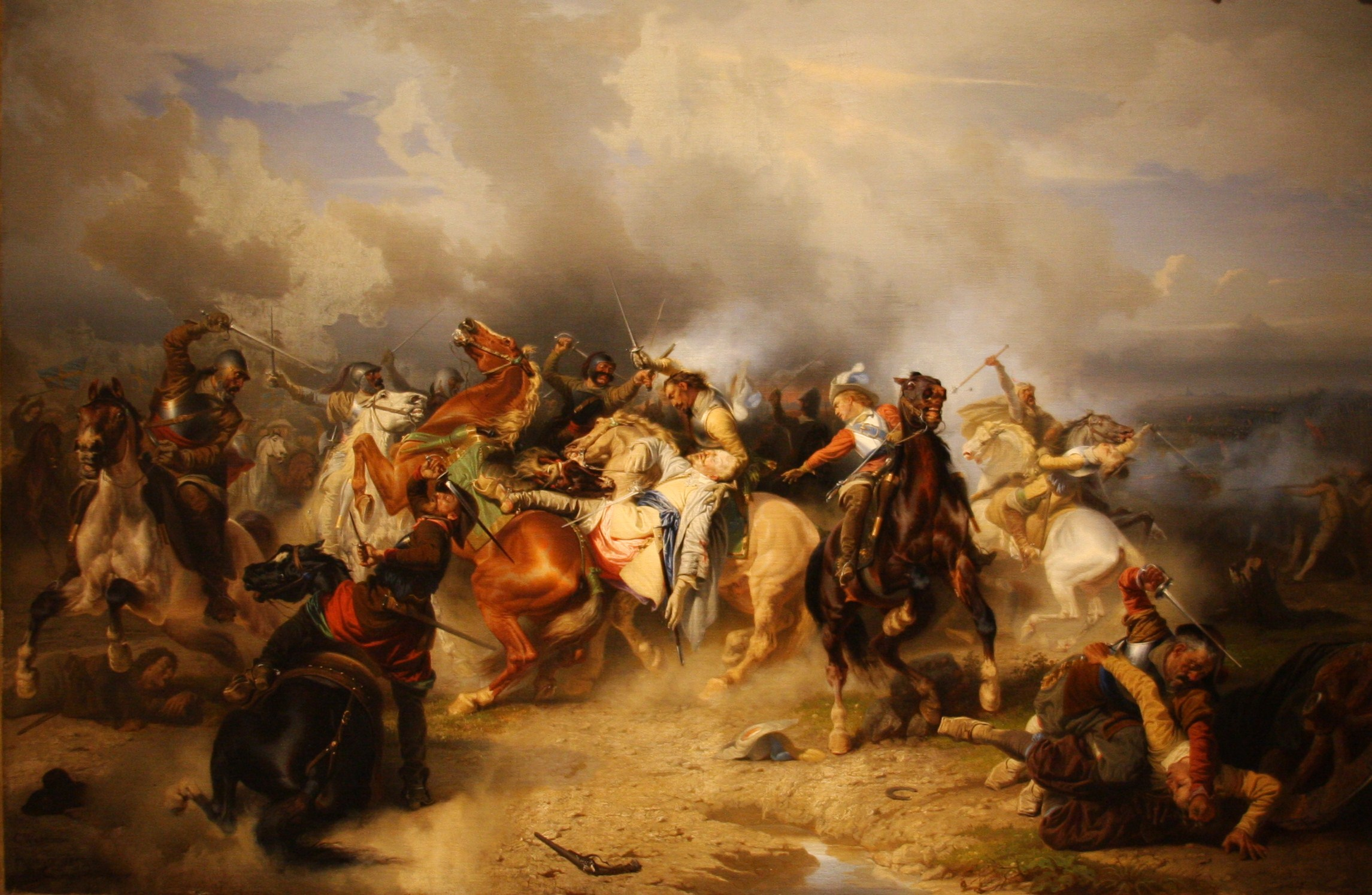 The scene shows the death of King Gustav II Adolf of Sweden on November 6, 1632.